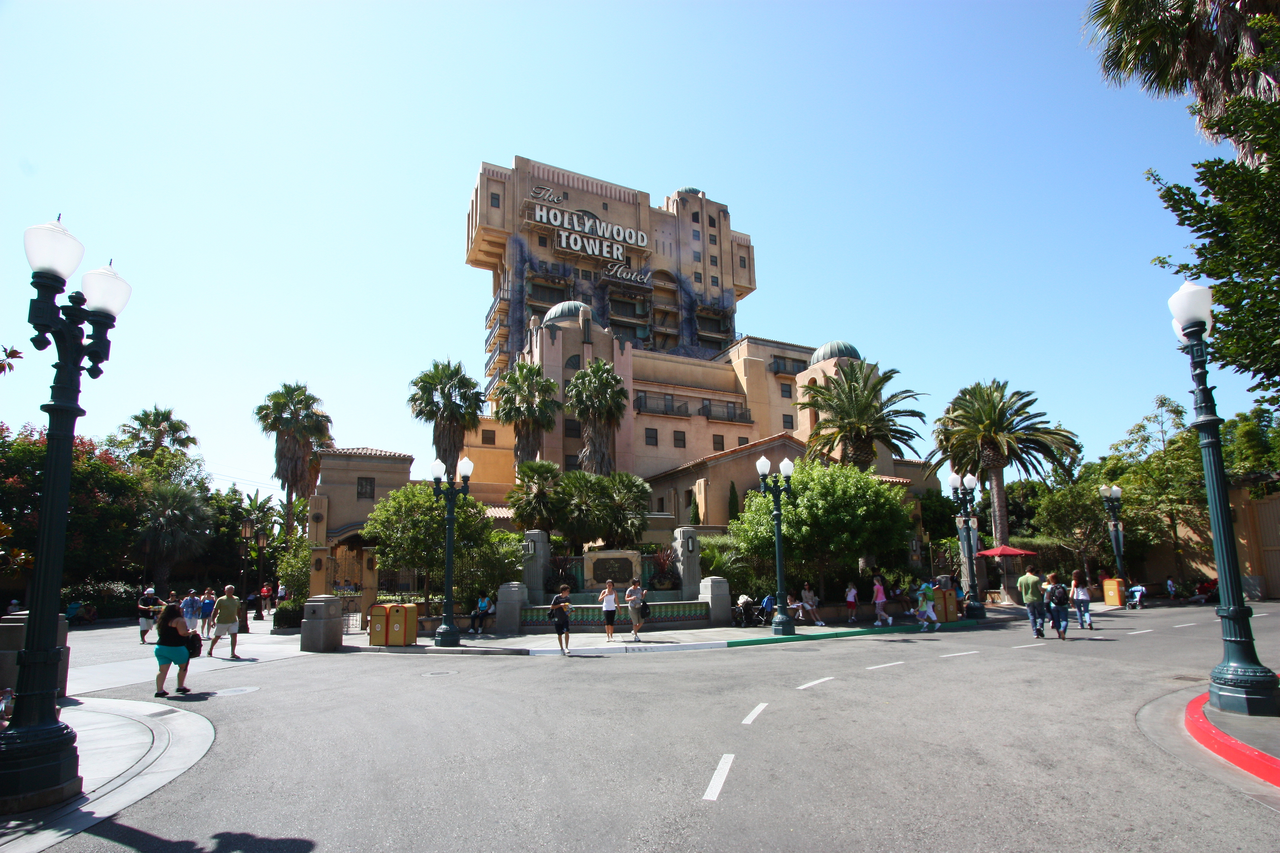 The Hollywood Tower Hotel at Disney's California Adventure.